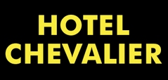 This is a modified film poster of the movie: Hotel Chevalier.